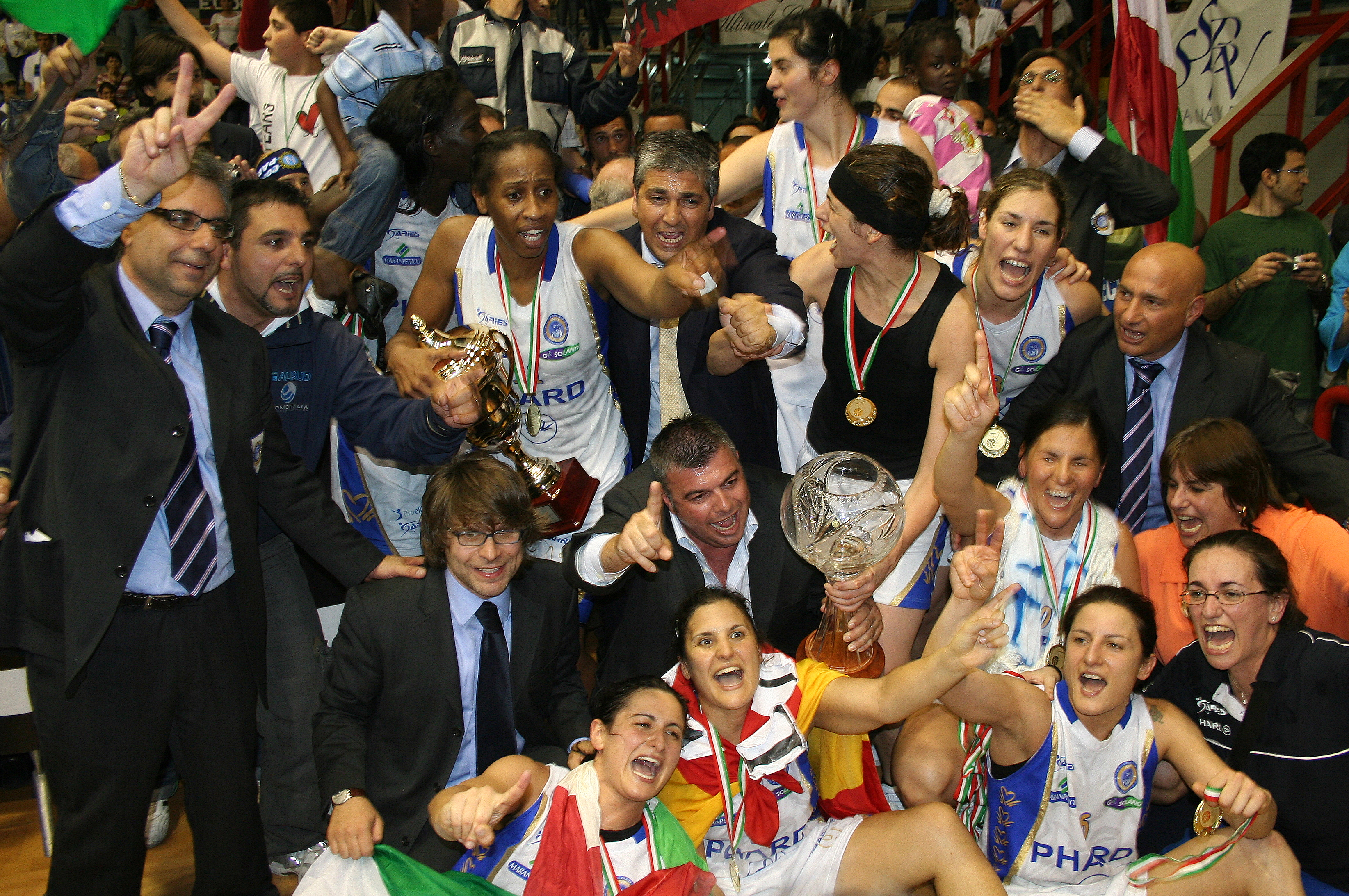 Phard Napoli wins Italian championship